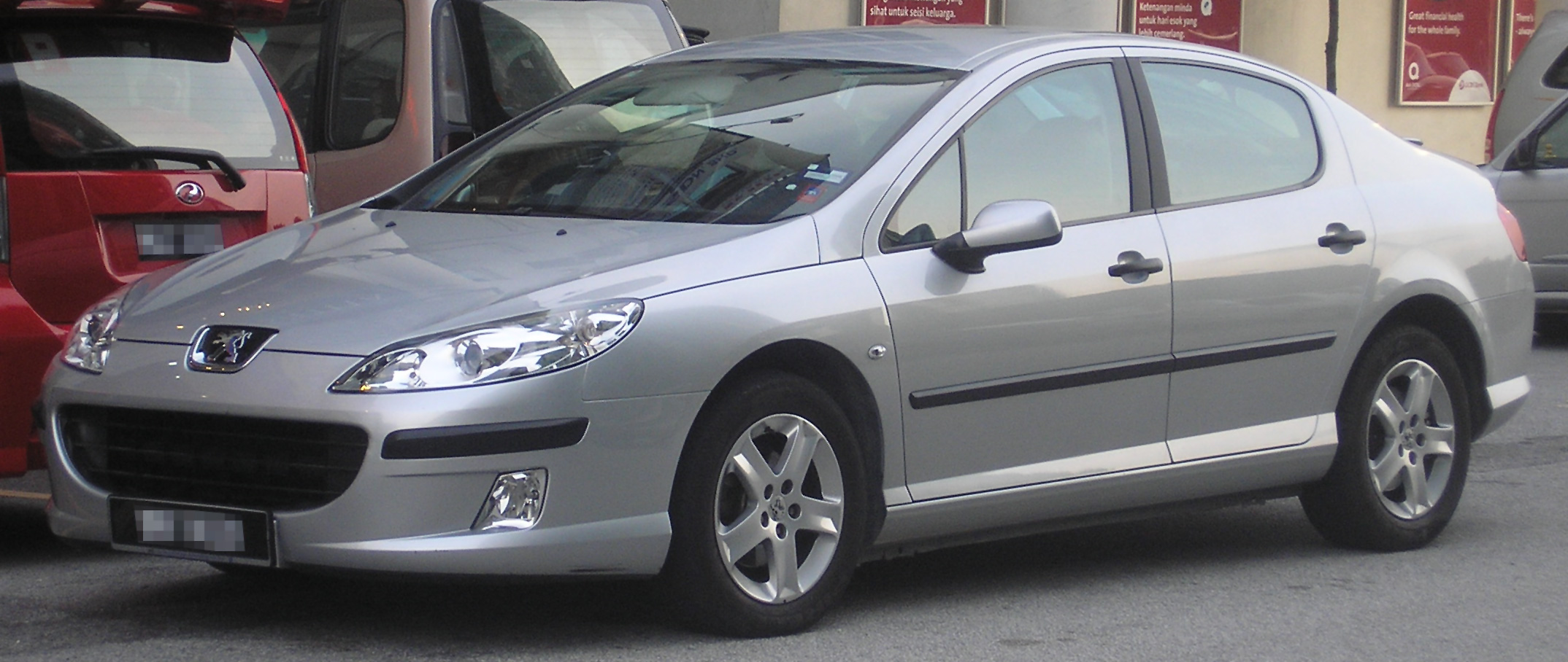 Front quarter view of a first generation Peugeot 407, in Serdang, Selangor, Malaysia.